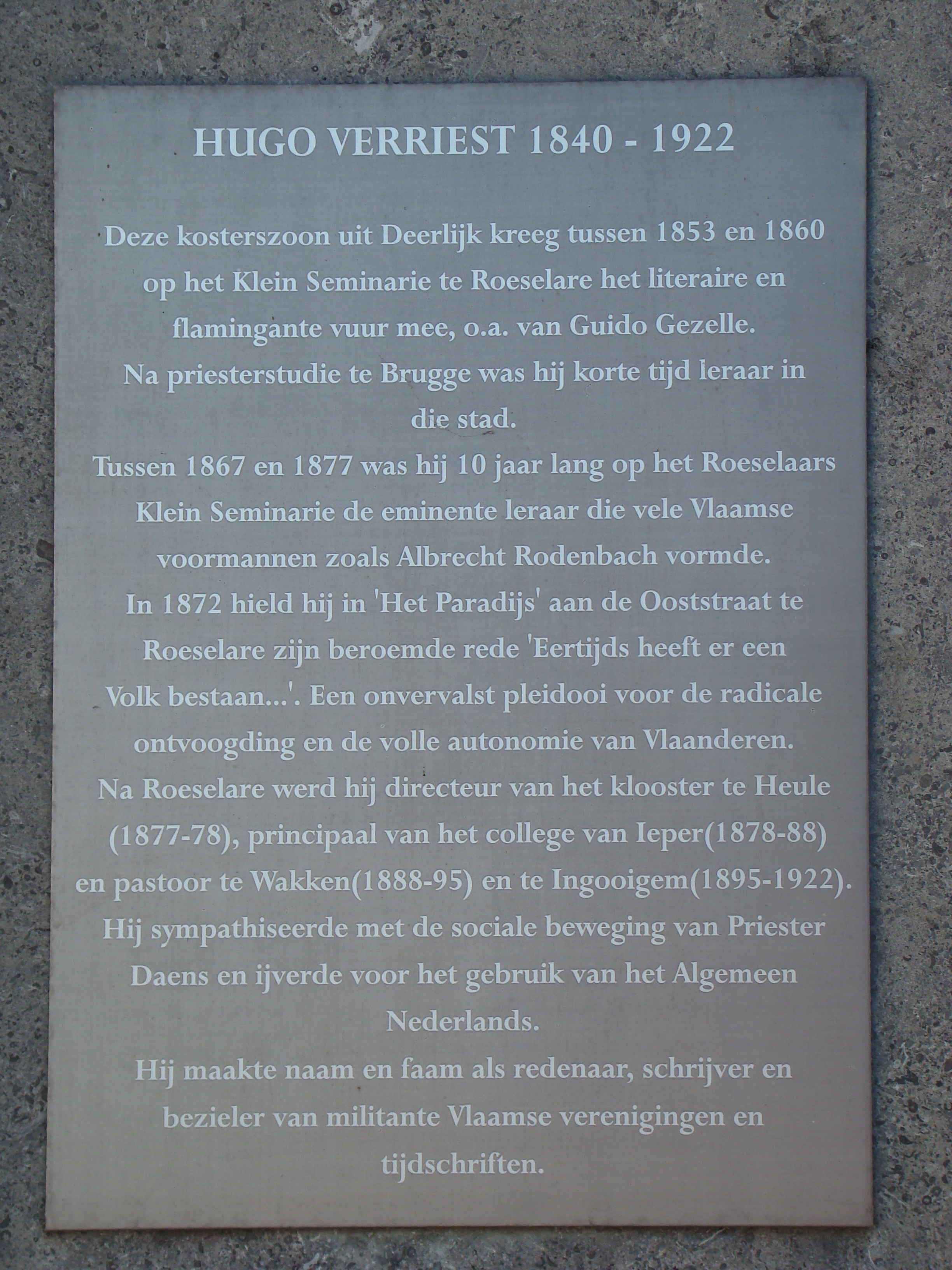 Roeselare (West Flanders, Belgium)